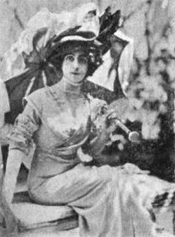 Teresa Labriola, from a 1921 publication.